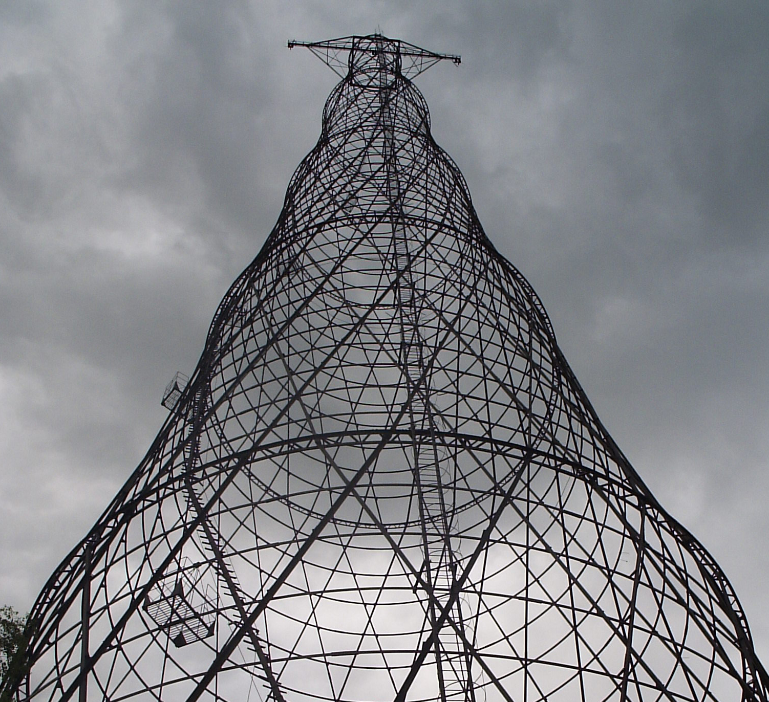 The hyperboloid Shukhov Oka Tower, on the west bank of the Oka River in central Russia. Two 1929 Soviet Union era electricity pylons allowed transmission lines to cross the Oka River, and they were designed and engineered by the great Russian scientist Vladimir Shukhov (1853-1939). The remaining one of the two is on the west bank of the Oka River near Dzerzhinsk, in Nizhniy Novgorod Oblast (east tower illegally demolished for scrap steel—2005). The west tower is the world’s only surviving hyperboloid electricity pylon.